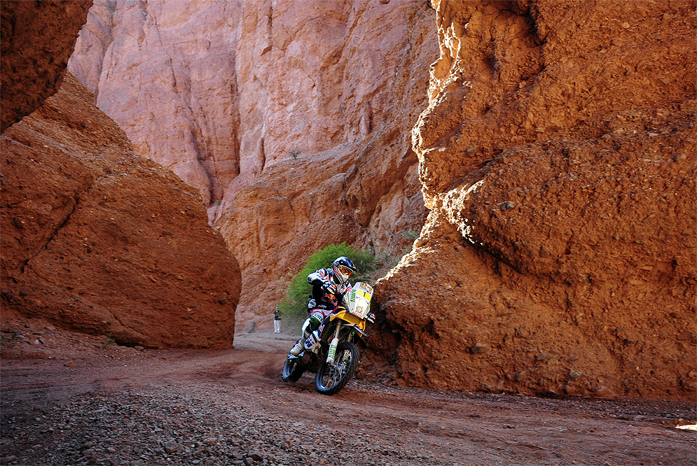 Marc Coma at 2010 Rally Dakar